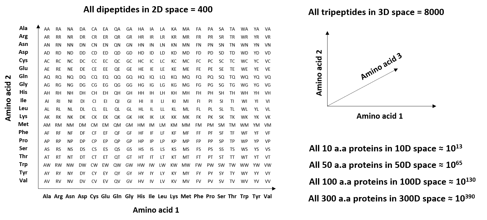 Protein sequence space can be represented as a space with n dimensions, where n is the number of amino acids in the protein. Each axis has 20 positions representing the 20 amino acids. There are 400 possible 2 amino acid proteins (dipeptide) which can be arranged in a 2D grid. the 8000 tripeptides can be arranged in a 3D cube. There are an astronomical number of longer protein sequences which are arranged in large, multidimensional spaces.